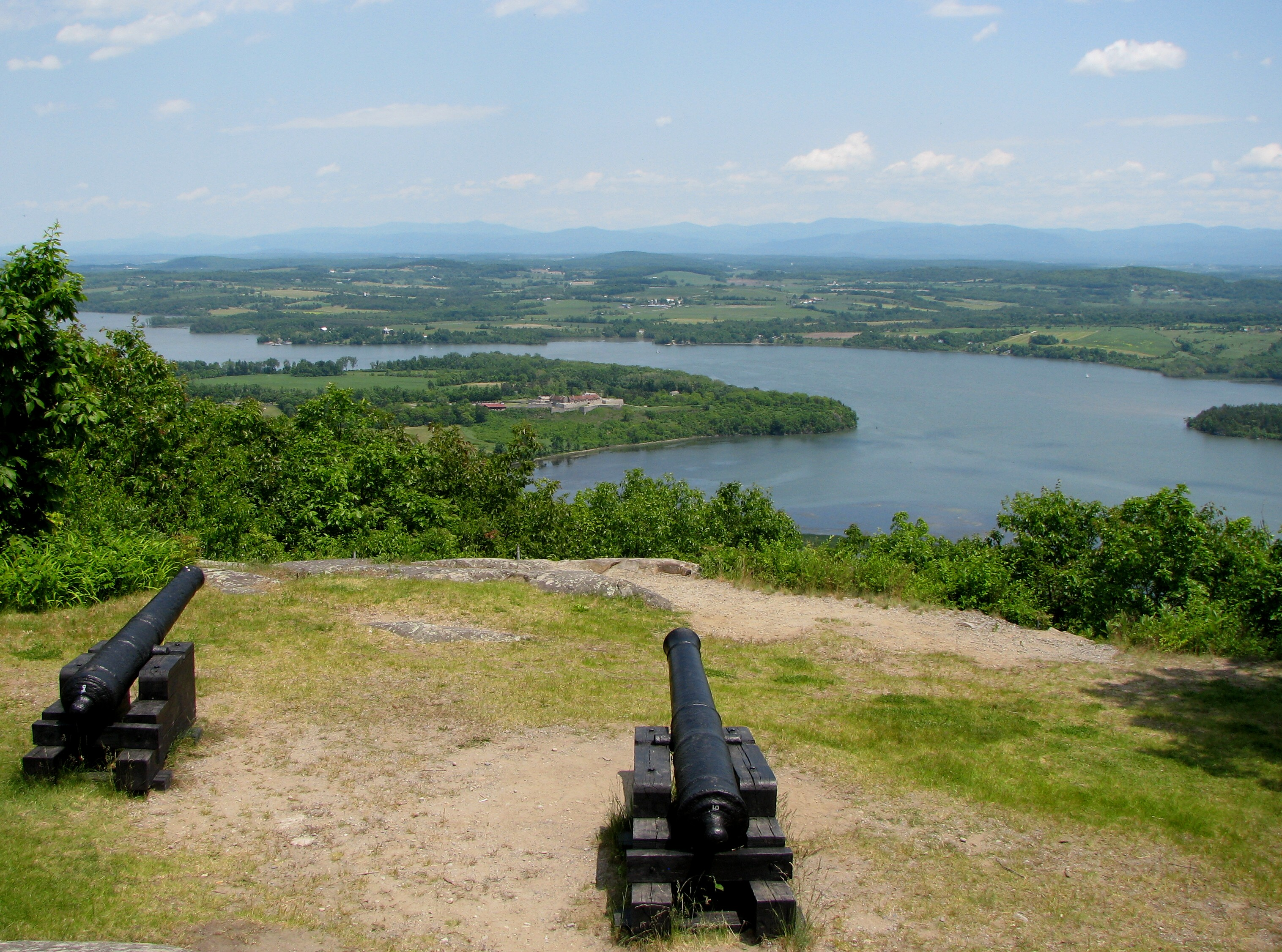 The view from Mount Defiance, overlooking Fort Ticonderoga, Ticonderoga, New York